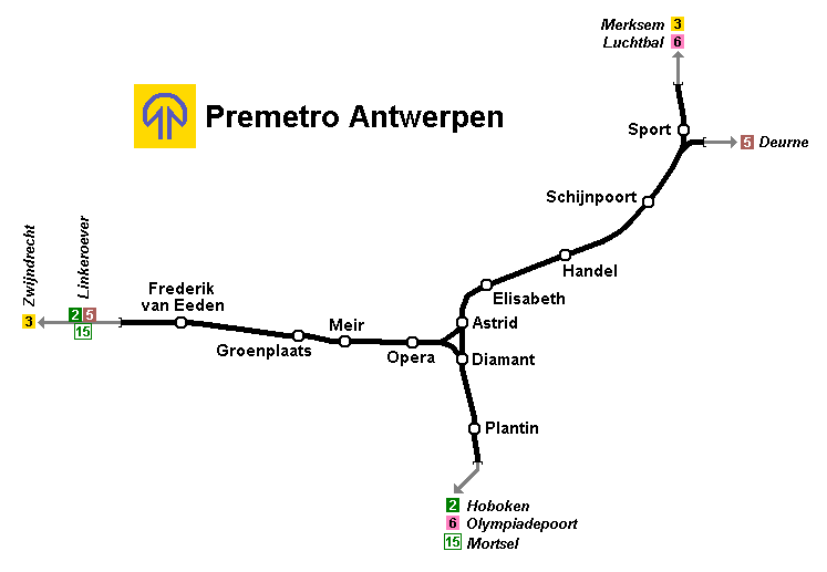 Antwerp Pre-metro map